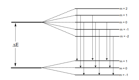 Normal Zeeman effect: the 15 possible transitions between the states l = 2 and l = 1, separated by magnetic field only 9 occur corresponding to Δm = m i - m f -1, 0, 1, in the form of three lines.